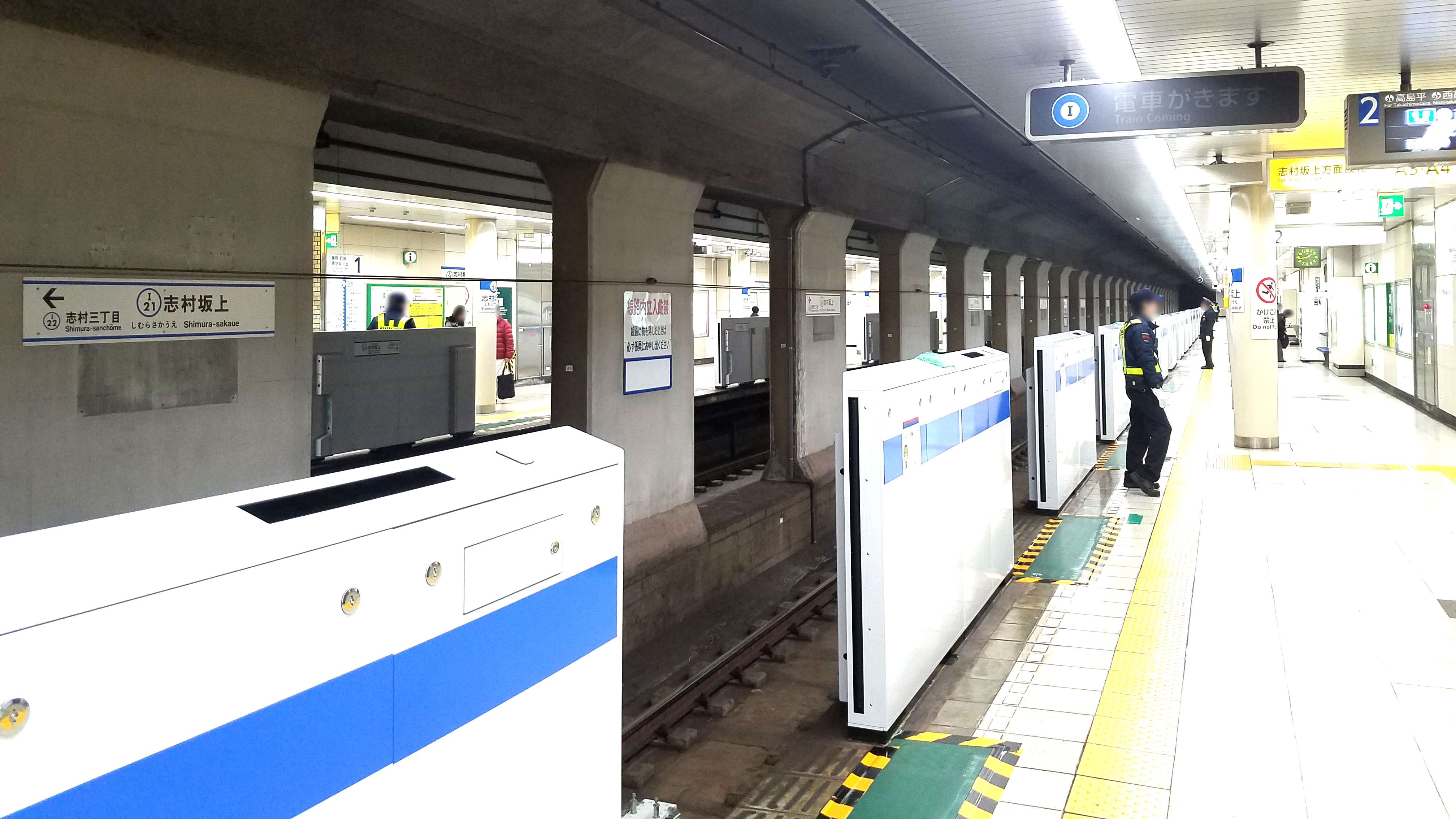 The platforms at Shimura-Sakaue Station on the Toei Mita Line in Itabashi city, Tokyo, Japan